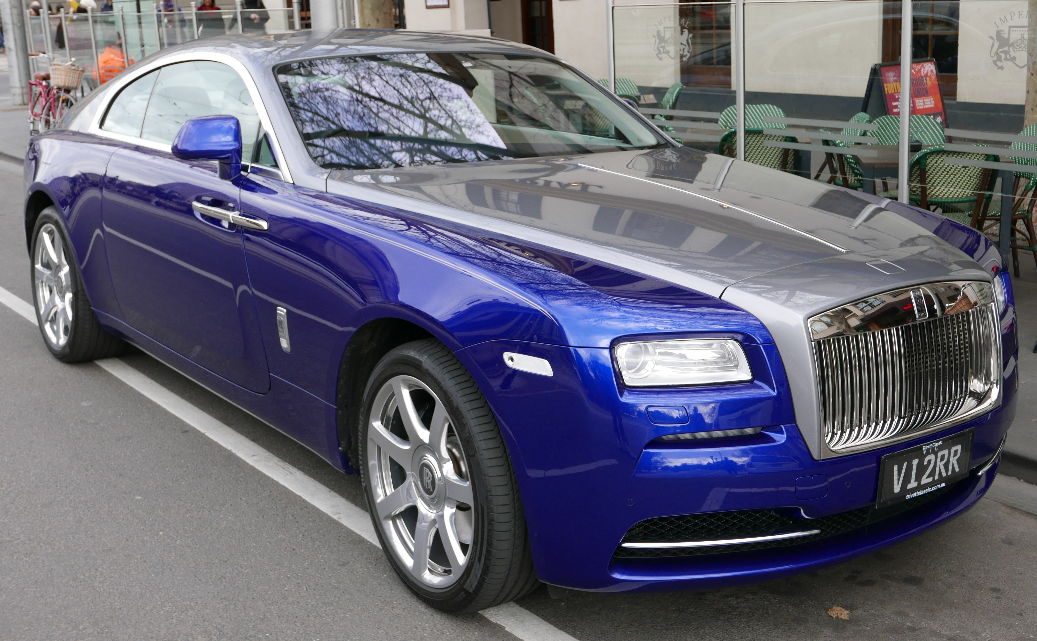 2014 Rolls-Royce Wraith (MY14) coupe. Photographed in Melbourne, Victoria, Australia. Vehicle registration enquiry resultsJurisdictionVictoriaRegistrationVI2RRChassis codeSCA665C09EUH24717Engine code90270807Compliance date2014-11Year of manufacture2014